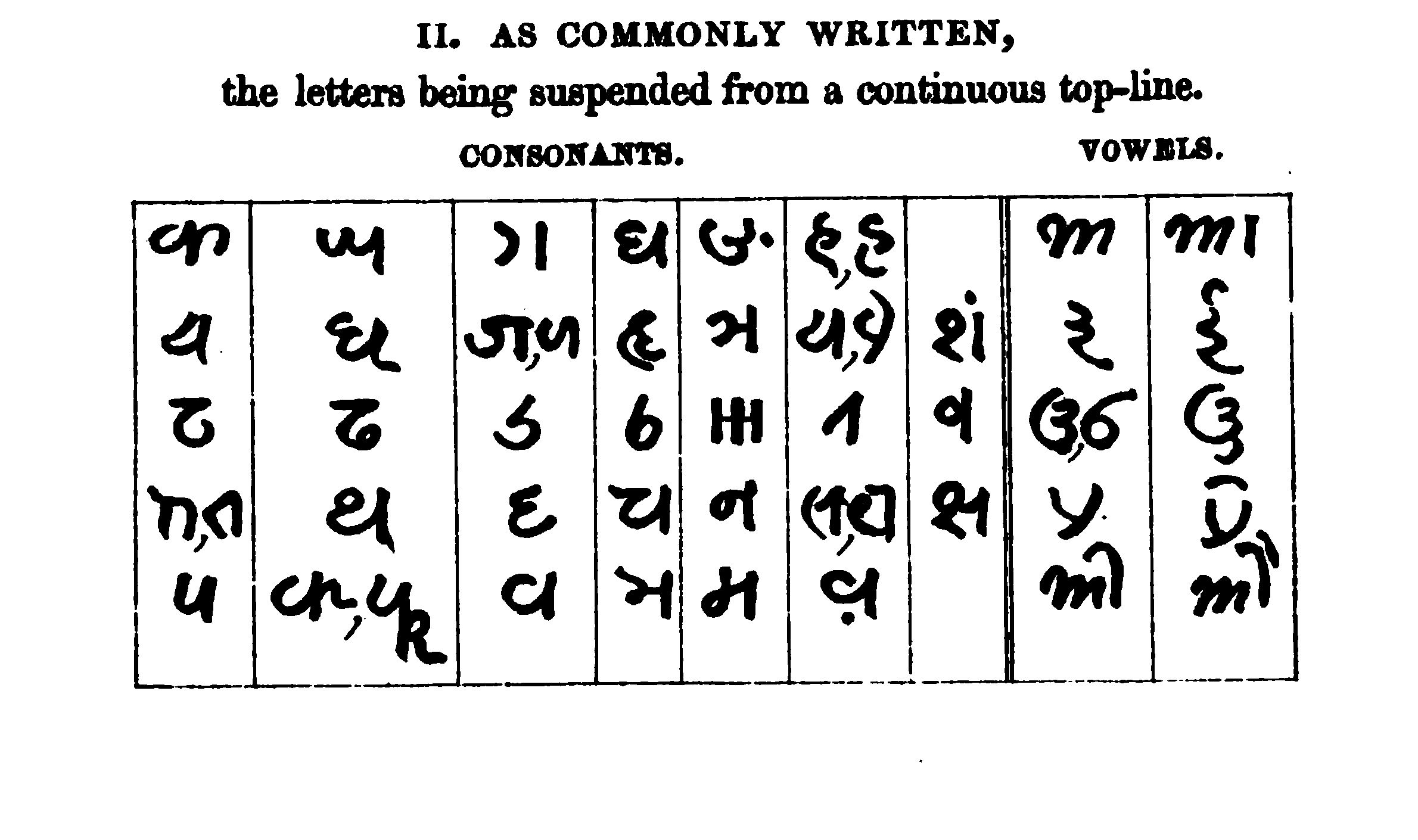 This table sets out the handwritten form of the vowels and consonants of the Kaithi script, as of the middle of the 19th century.